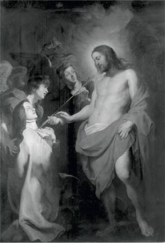 Rubens, Transverberation of Saint Teresa, c. 1615 (photograph of lost painting)